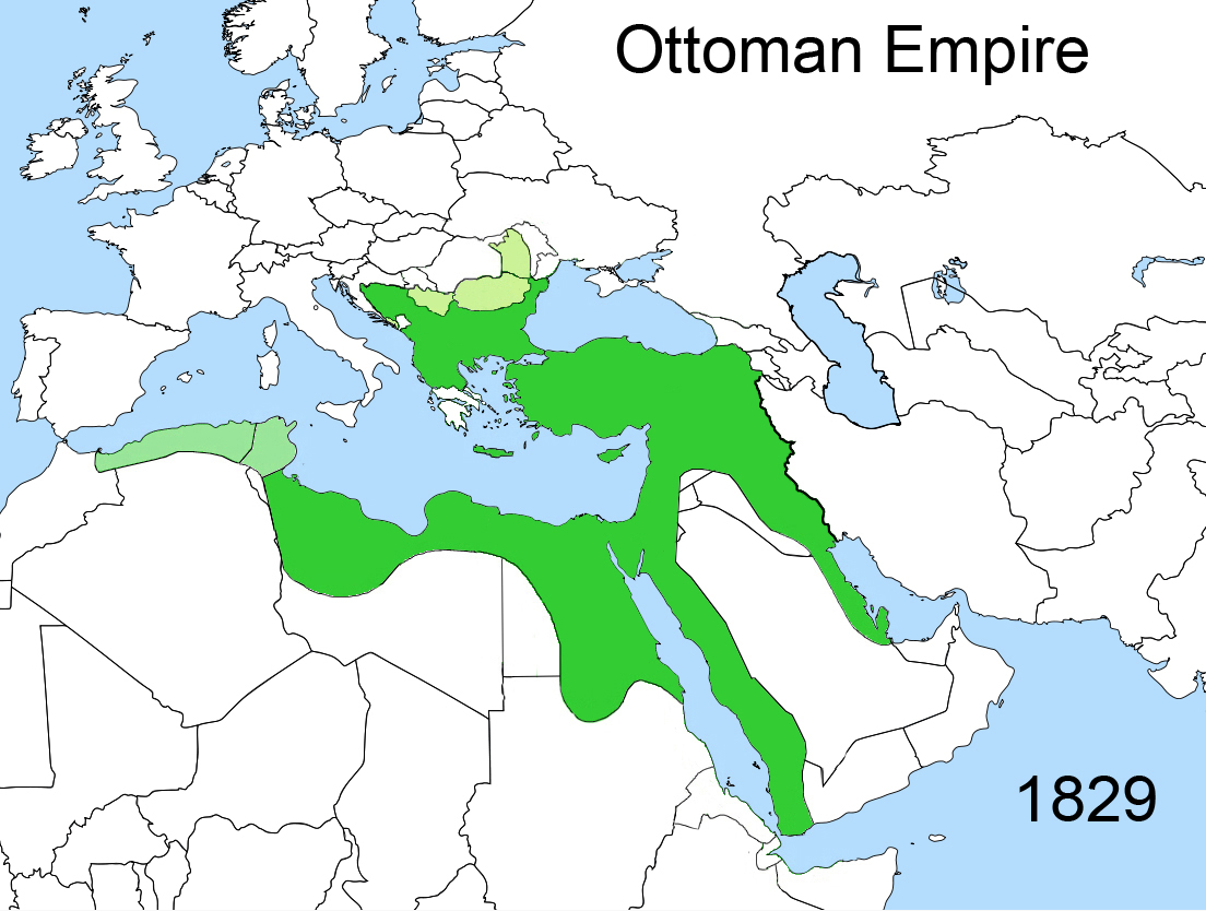 Territorial changes of the Ottoman Empire — existing in 1929.